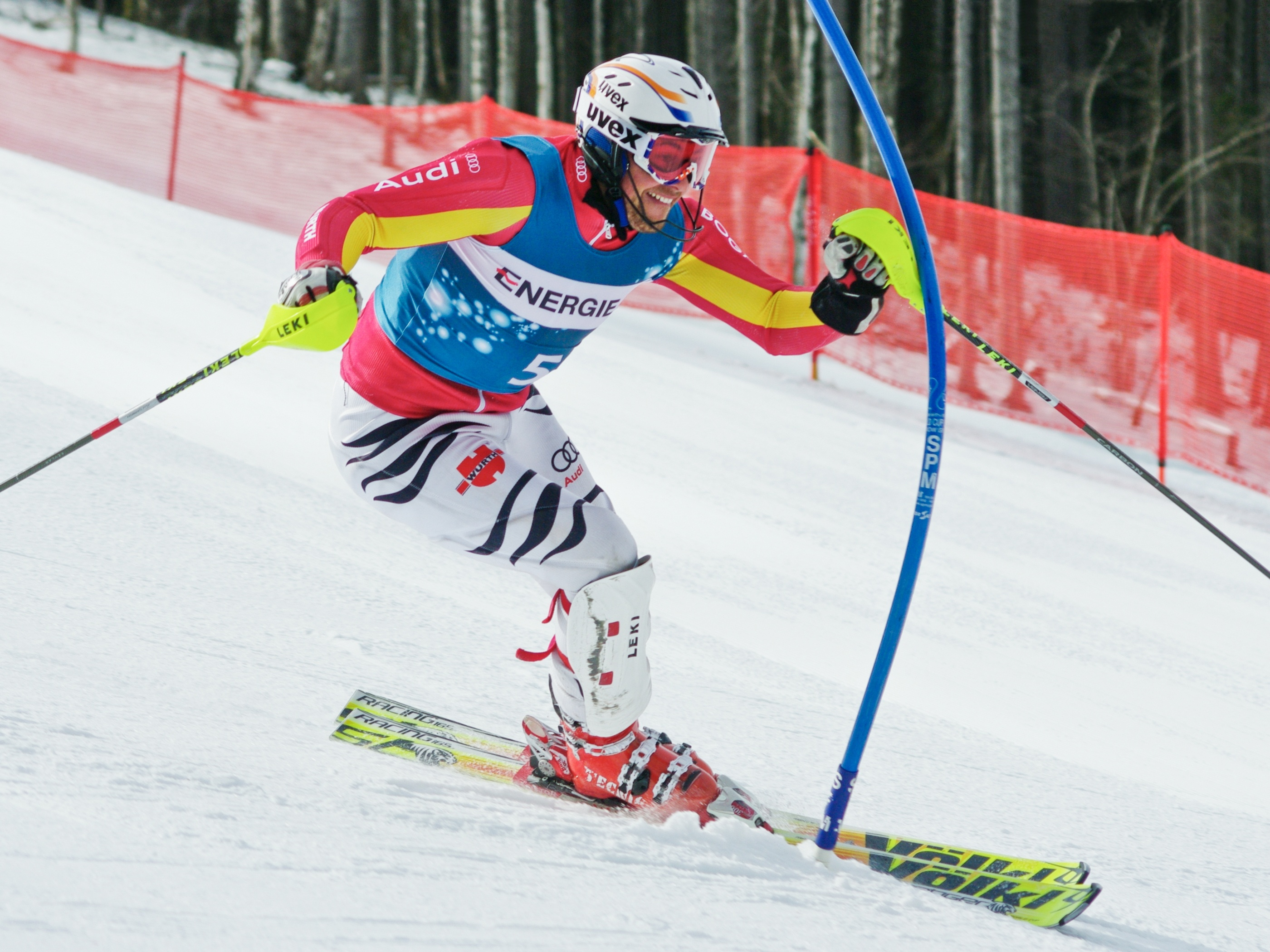 German alpine skier Philipp Schmid in the first run of the FIS Slalom in Hinterstoder, Austria, on 10 March 2010.